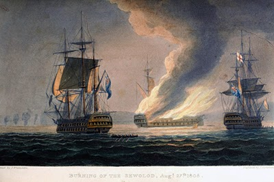 Burning of the Sewolod Aug 26th 1808, by HMS Centaur and HMS Implacable. Taken from the Naval Chronology of Great Britain; Or, An Historical Account of Naval and Maritime Events from the Commencement of the War in 1803 to the End of the Year 1816 ... by James Ralfe.